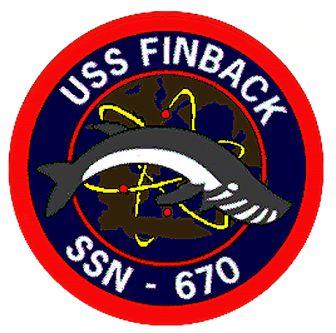 Insignia of USS Finback (SSN-670)